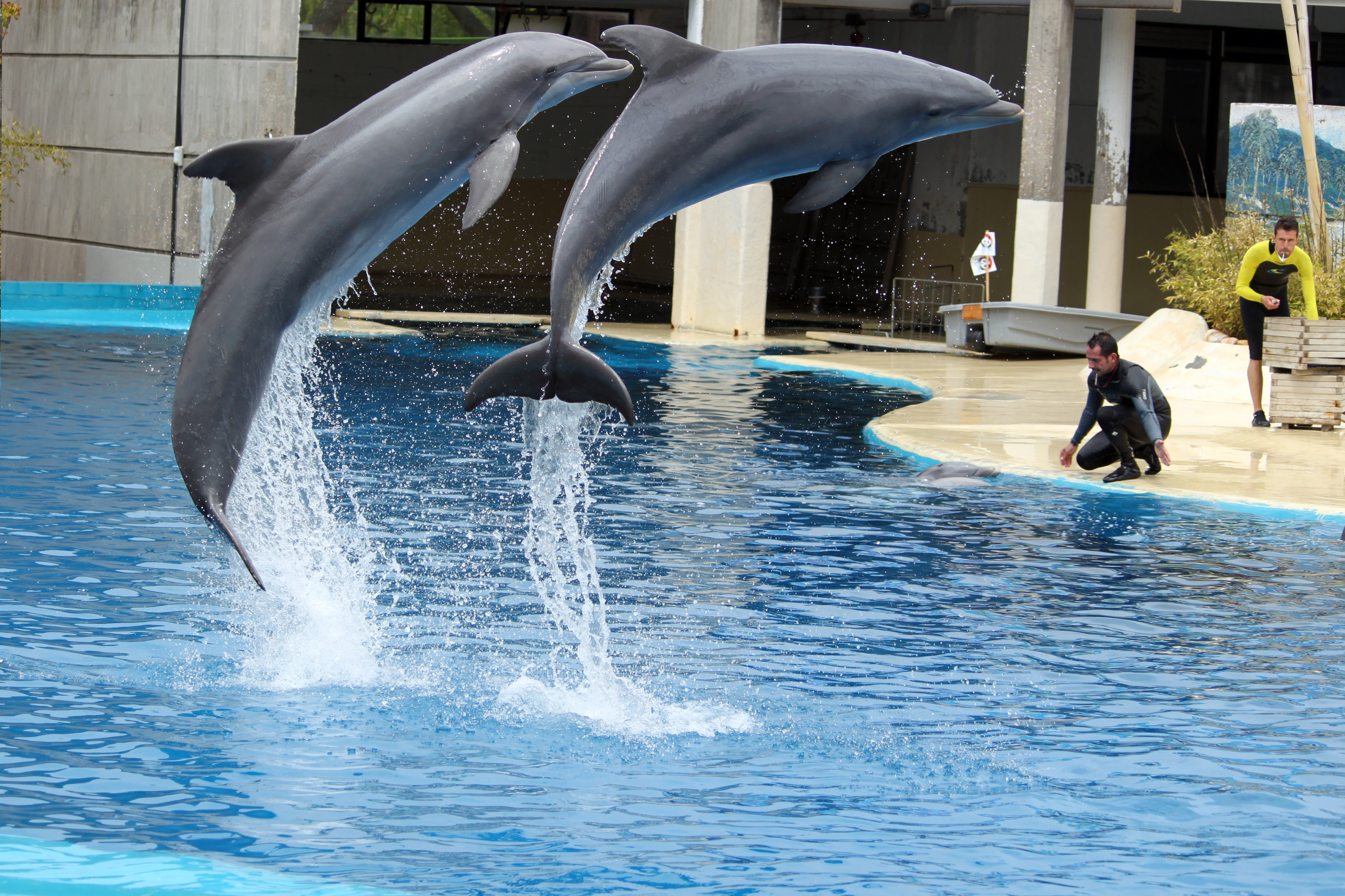 Dolphin Show in the Madrid Zoo, Spain